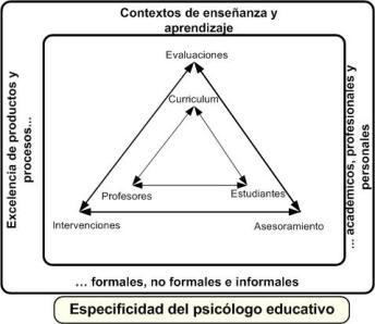 Tareas principales que desempeña el profesional de la psicología educativa